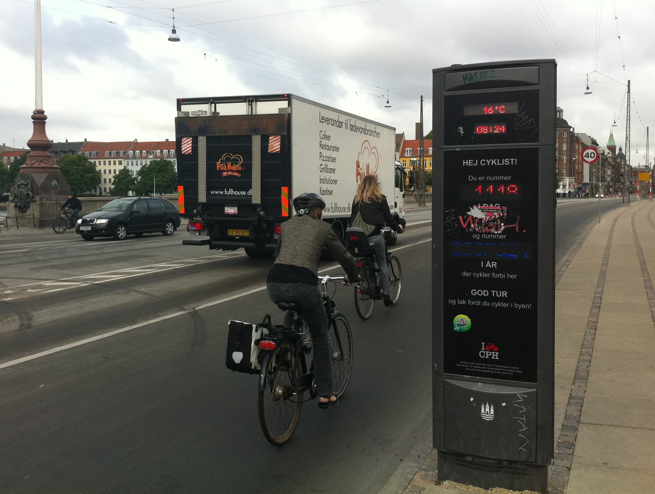 Bike counter at Dronning Louises Bro, Nørrebro, Copenhagen The danish text reads: "Hello Biker you are number 1118 today and number 2007324 this year to bike past this point, have nice trip and thank you for biking in the city."